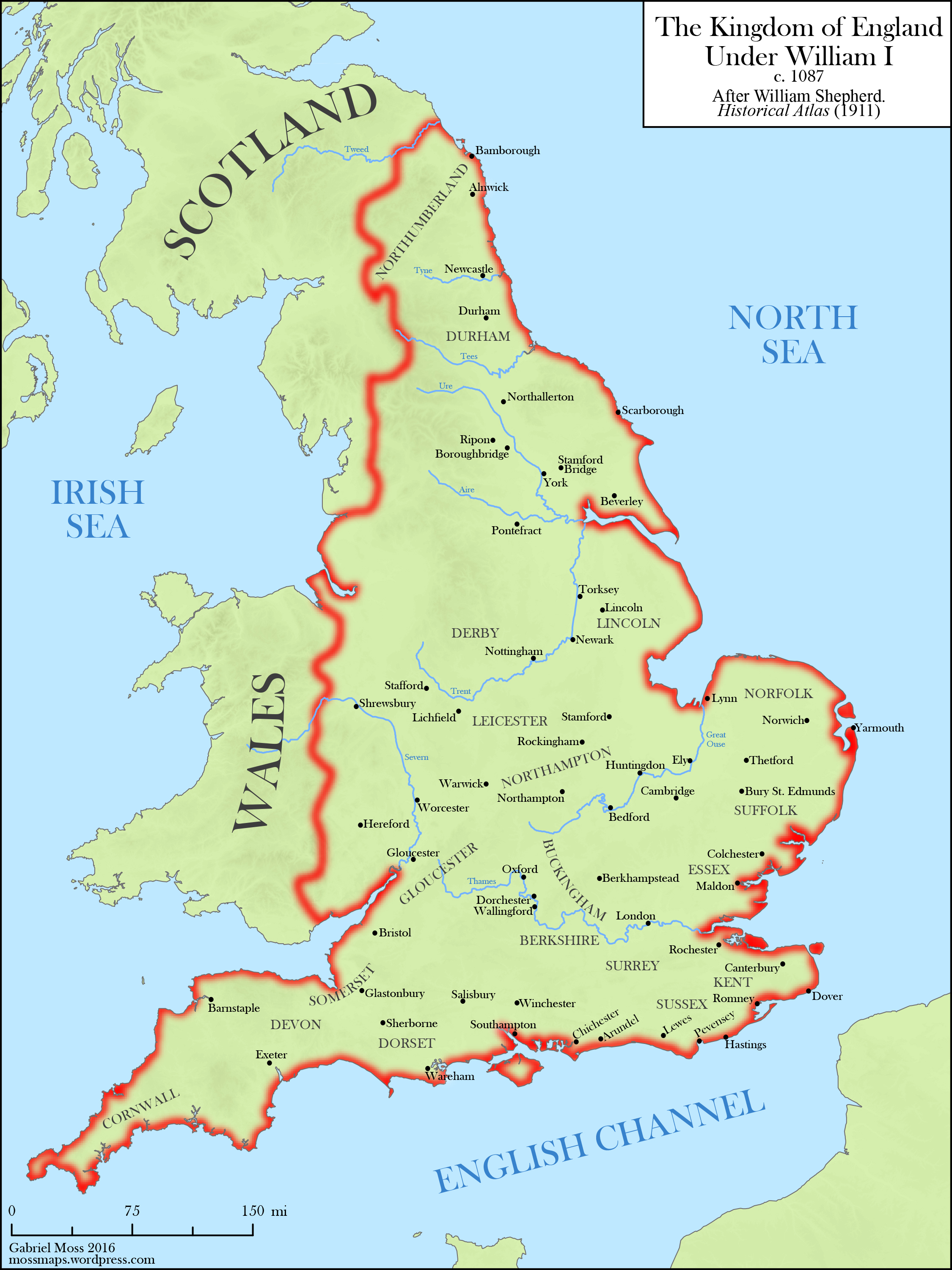 The Kingdom of England Under William the Conqueror